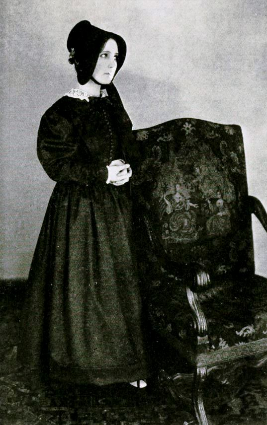 Still from the American film Jane Eyre (1921) with Mabel Ballin, on page 69 of William Lord Wright, Photoplay Writing (1922).